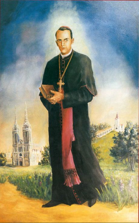 Chapel in Lupinjak